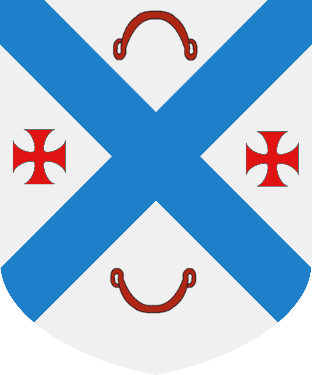 Bonaldi shield